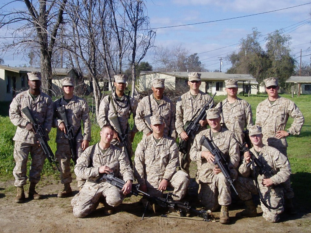 This is my squad at the end of our SASO (Support and Security Ops) at March AFB.1st Plt. 2nd Squad